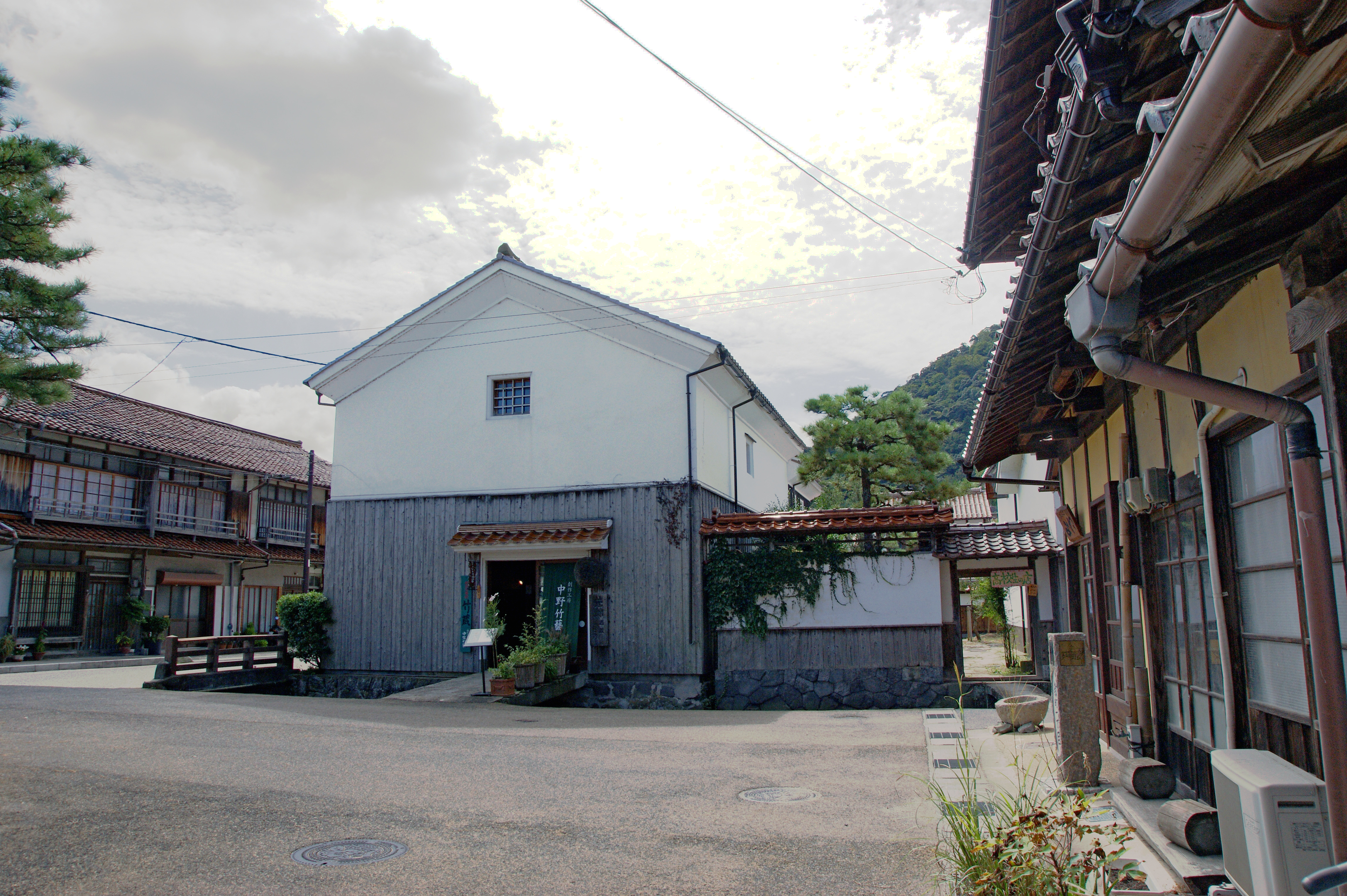 Utsubuki-tamagawa in Kurayoshi, Tottori prefecture, Japan